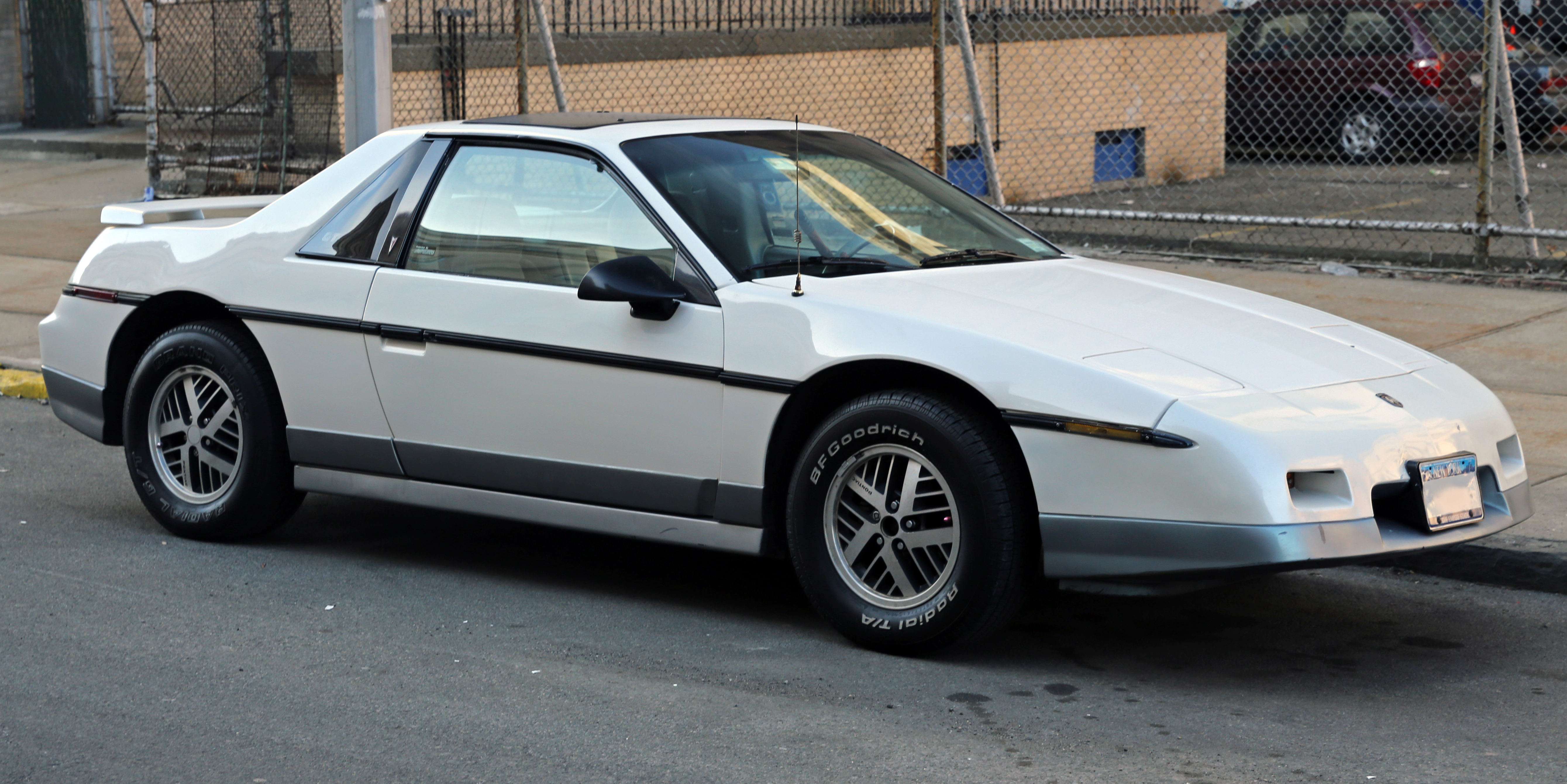 A 1985 Pontiac Fiero GT, the first year for the GT as well as the 2.8 litre V6 engine with which this is fitted.